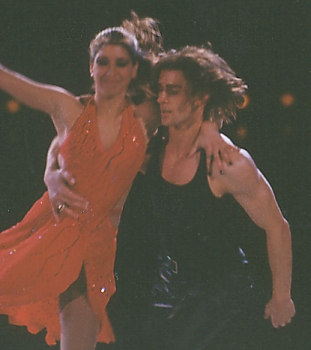 Naomi Lang and Peter Tchernyshev skate an exhibition program at the 2002 Champions On Ice show in Buffalo, New York. Photo taken by me, Vesperholly 06:18, 17 July 2006 (UTC)